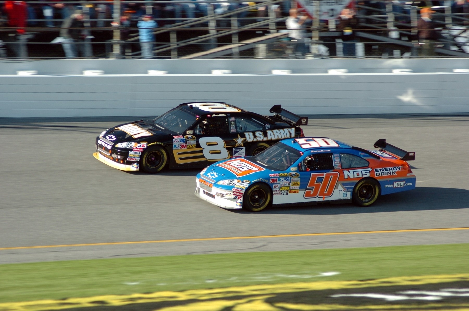 50 and #8